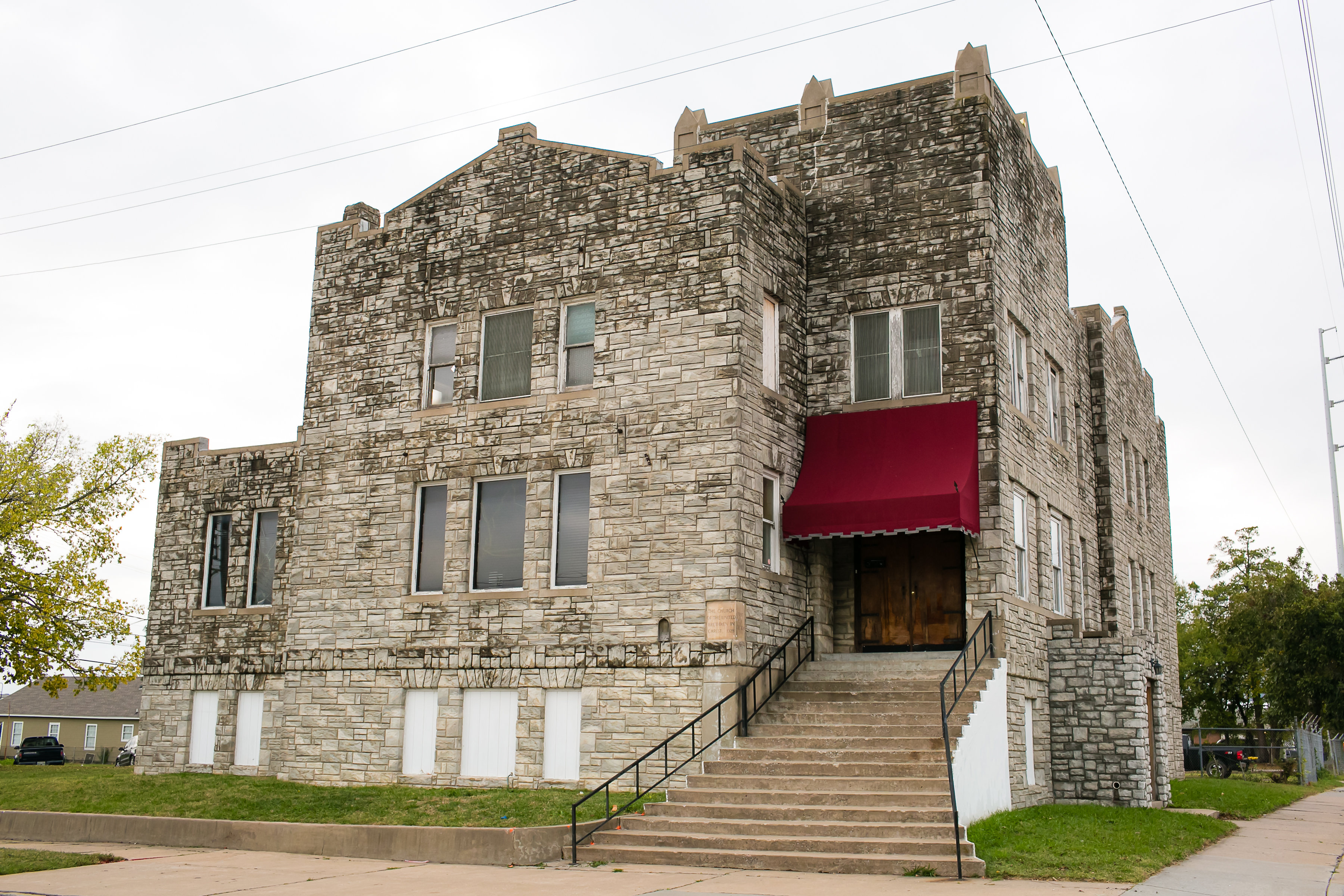 November 2016 photo by Amanda Bringham prior to restoration showing awkward awning and boarded up windows. Tulsa, Oklahoma.